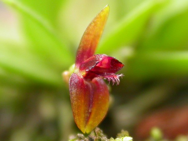 Anathallis